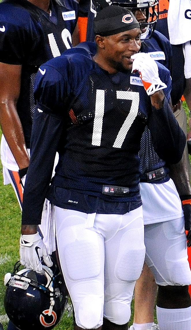 Wide receiver, Aishon Jeffrey, at Chicago Bears training camp in 2014.